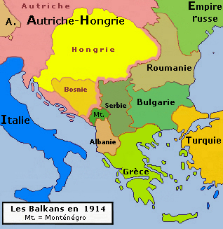 Historic map of Balkan peninsula, 1914